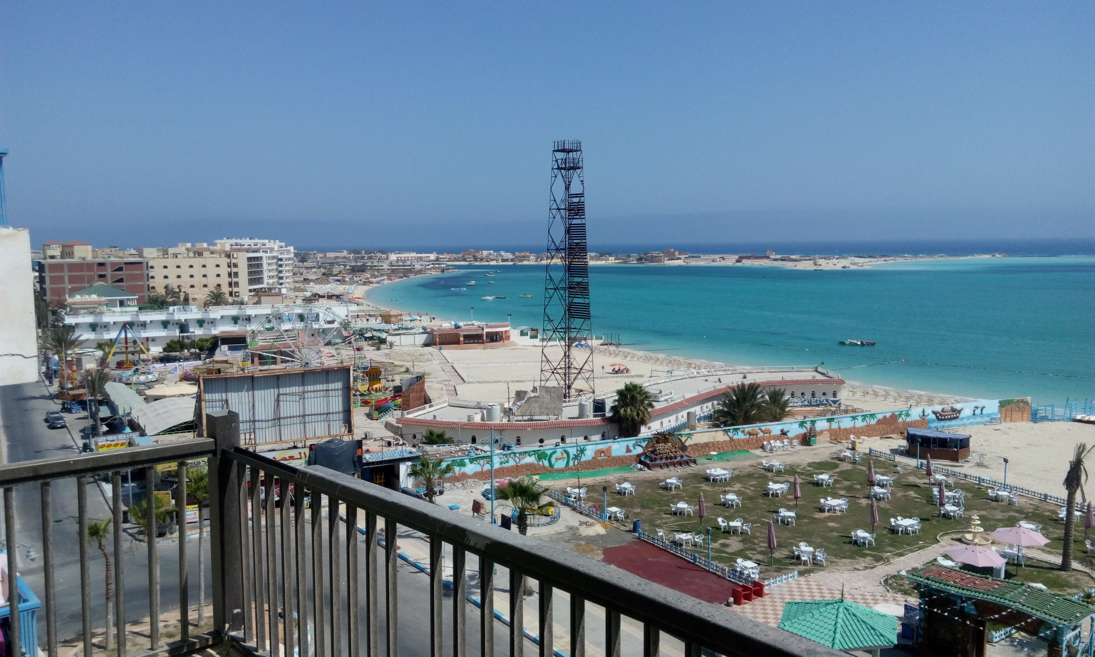 Mersa Matrouh Corniche